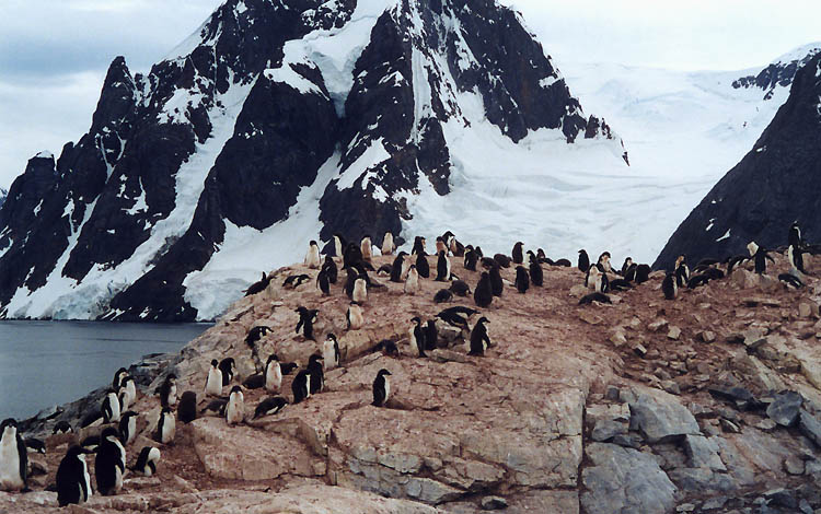 Photo of Adélie Penguin rookery on Petermann Island.